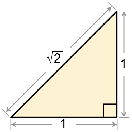 Square root of two as the hypotenuse of a right isosceles triangle of side 1